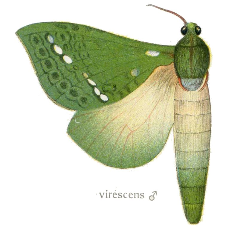 Hepialidae Plate from Seitz Macrolepidoptera